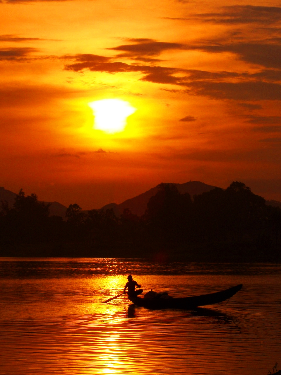 Sunset on the Perfume River in Huế